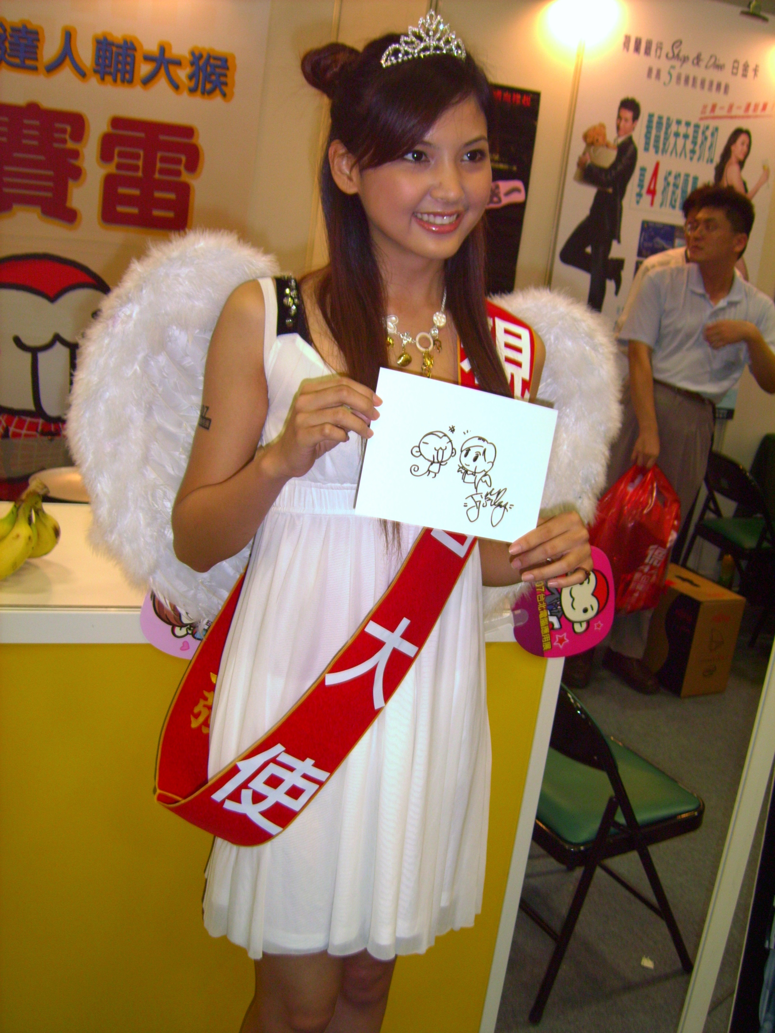 TICA 2007: Taiwanese anchor Rachel Shum received a special monkey picture from a Taiwanese blog manager FJUmonkey.